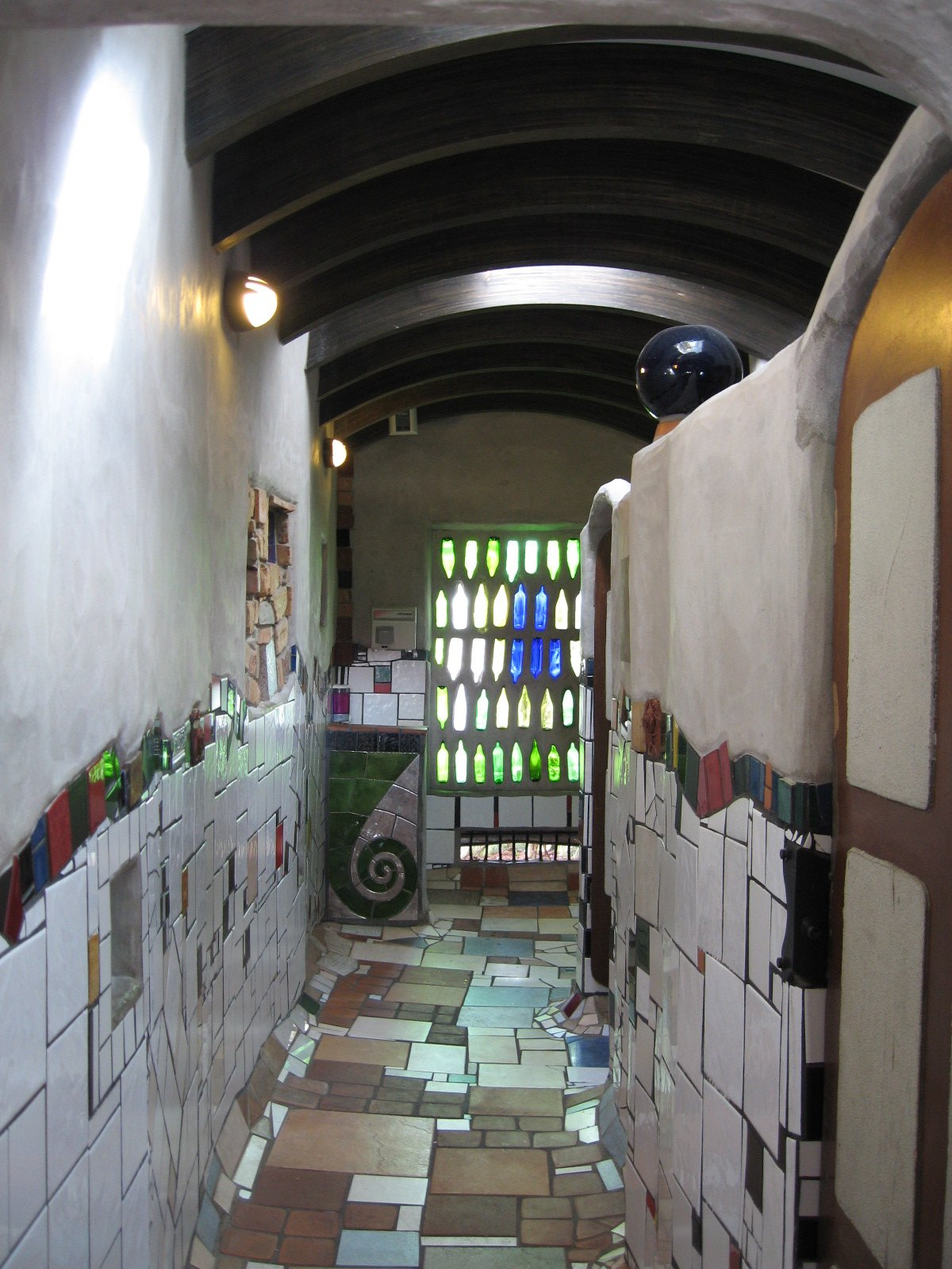 Sandwiched between the dole office and the Far North District Council in Kawakawa is the toilet block designed by Friedensreich Hundertwasser. This is the view from just inside the ladies.